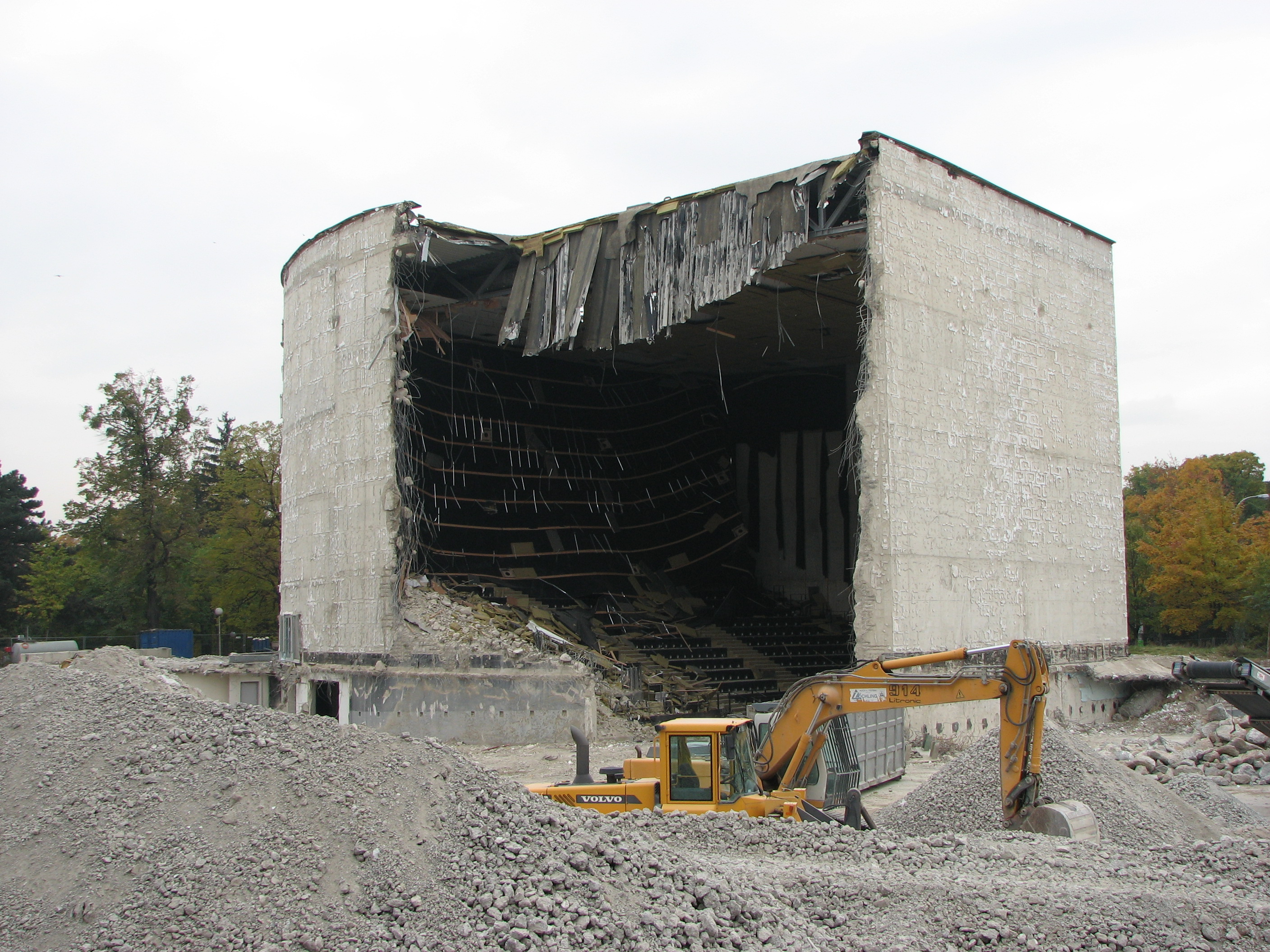 Demolition of IMAX theatre in Vienna in October 2009, backview